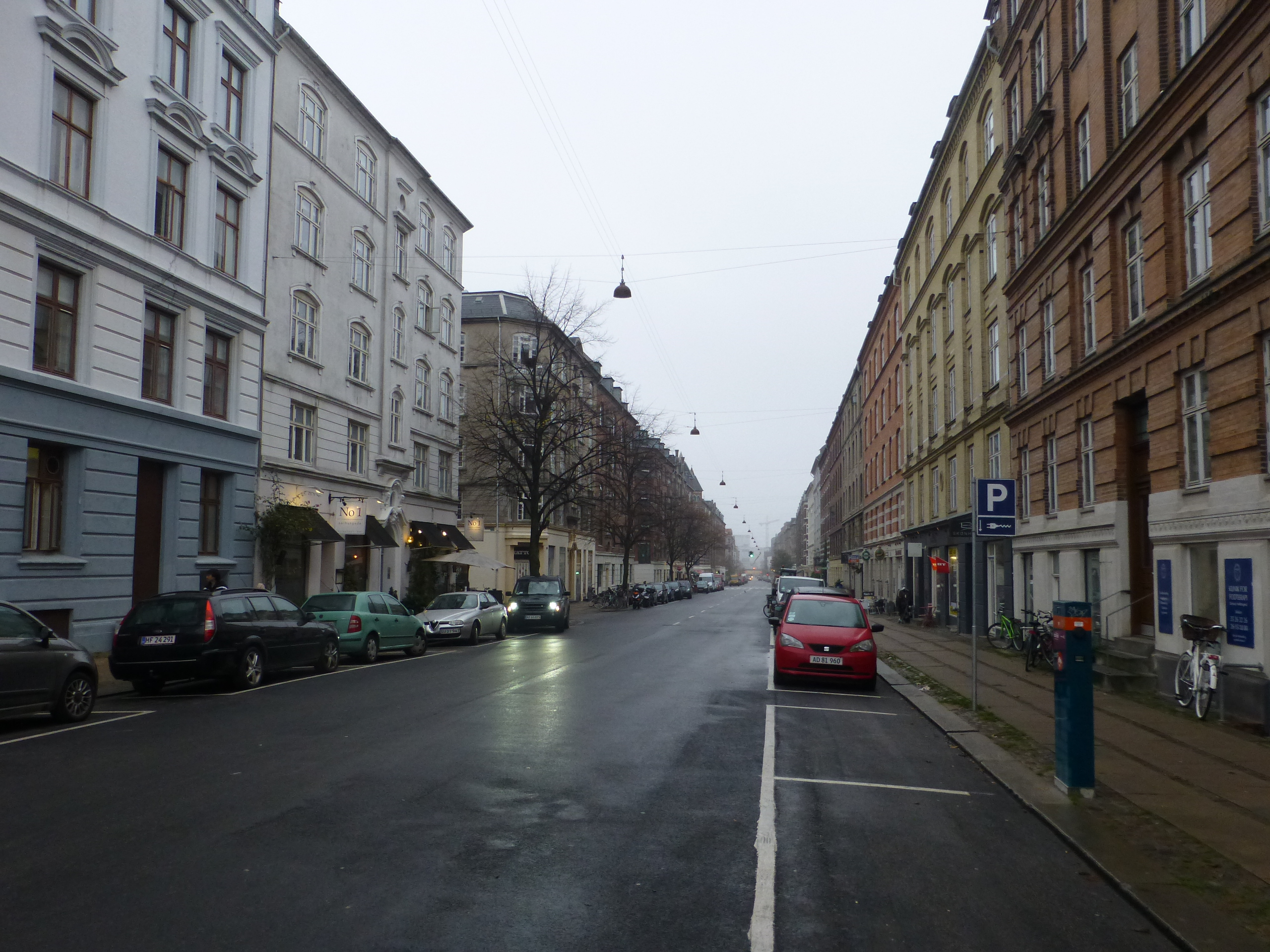 The street Århusgade in Østerbro in Copenhagen.